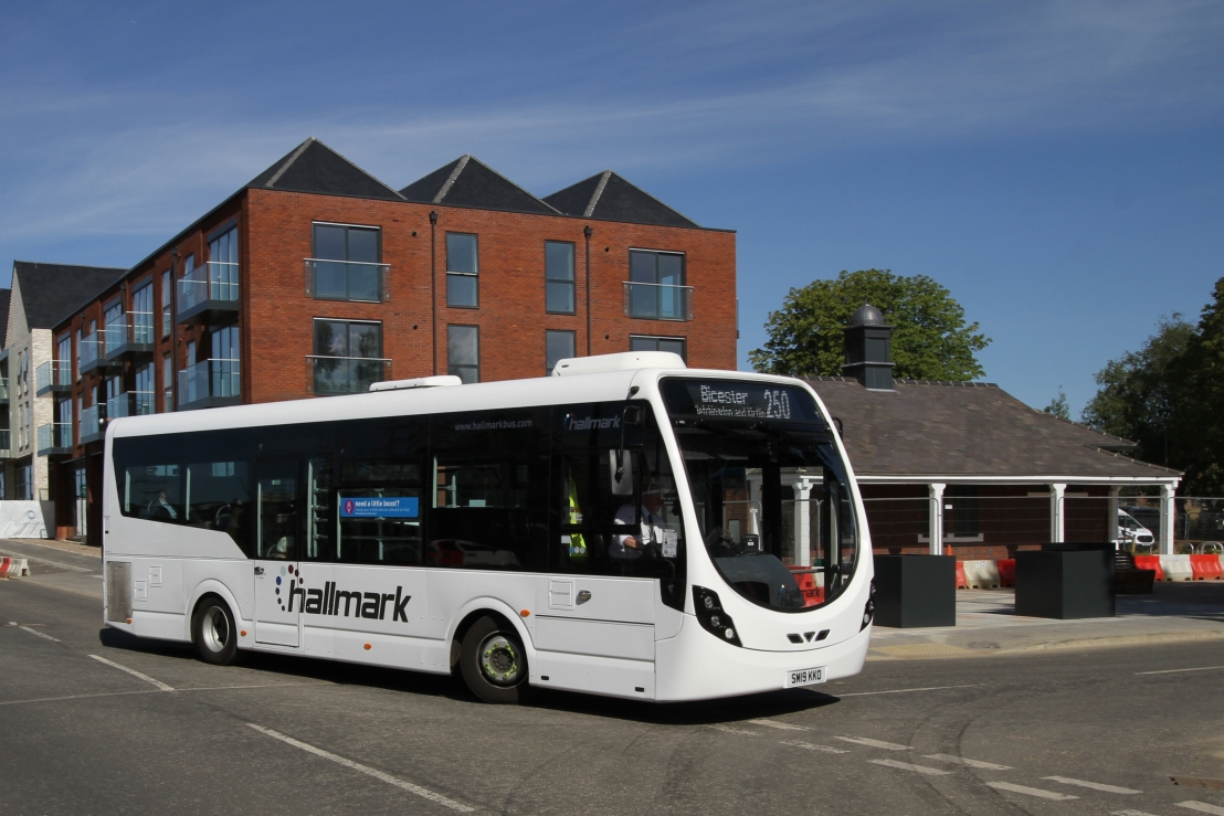 A Hallmark bus on route 250 on Camp Road, Heyford Park, Oxfordshire. The bus is a Wright StreetLite, registration mark SM19 KKO.